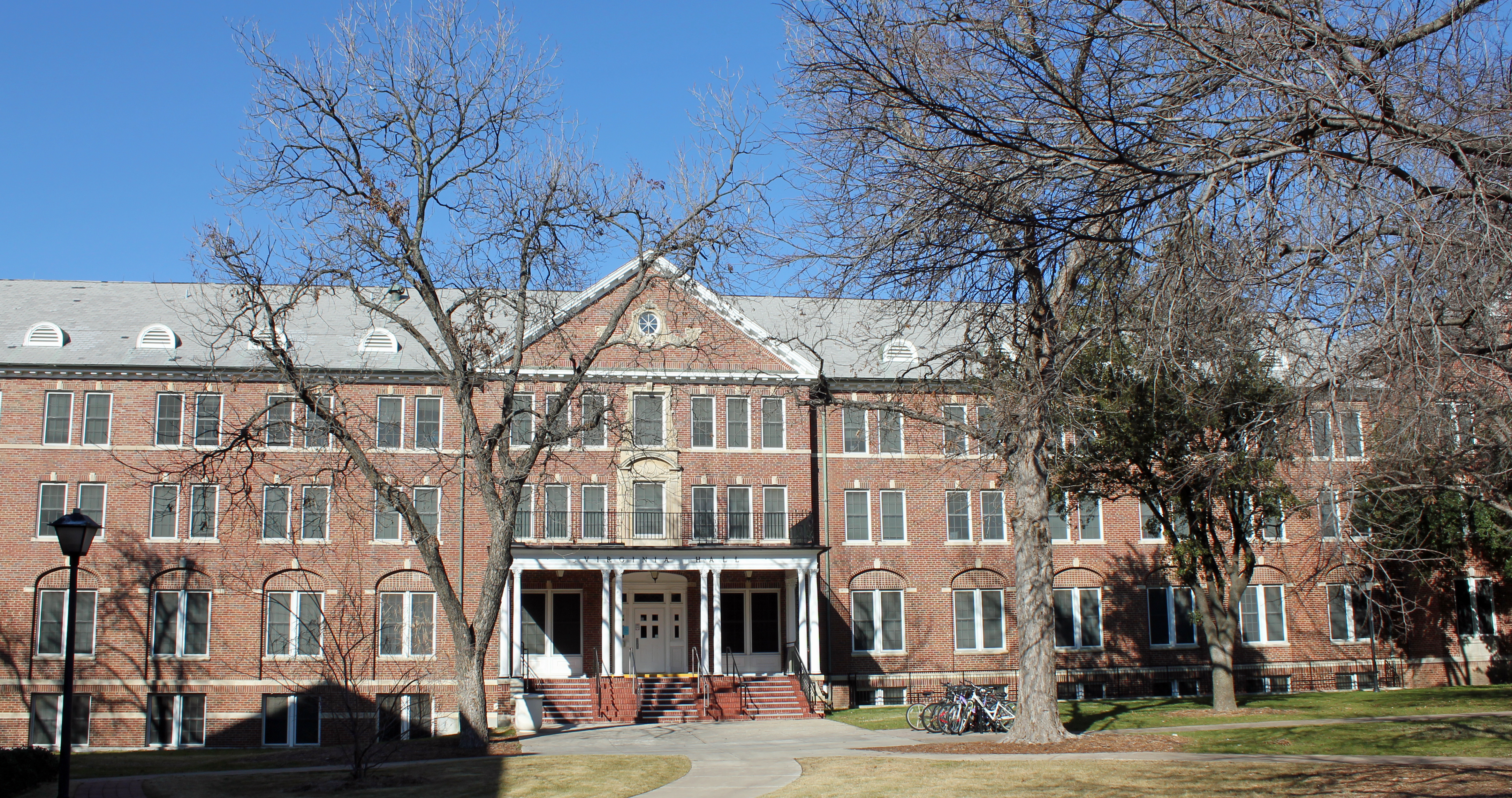 Virginia Hall on the Southern Methodist University Campus. The building is listed on the National Register of Historic Places. Its address is 3325 Dyer Street in Dallas, Texas.